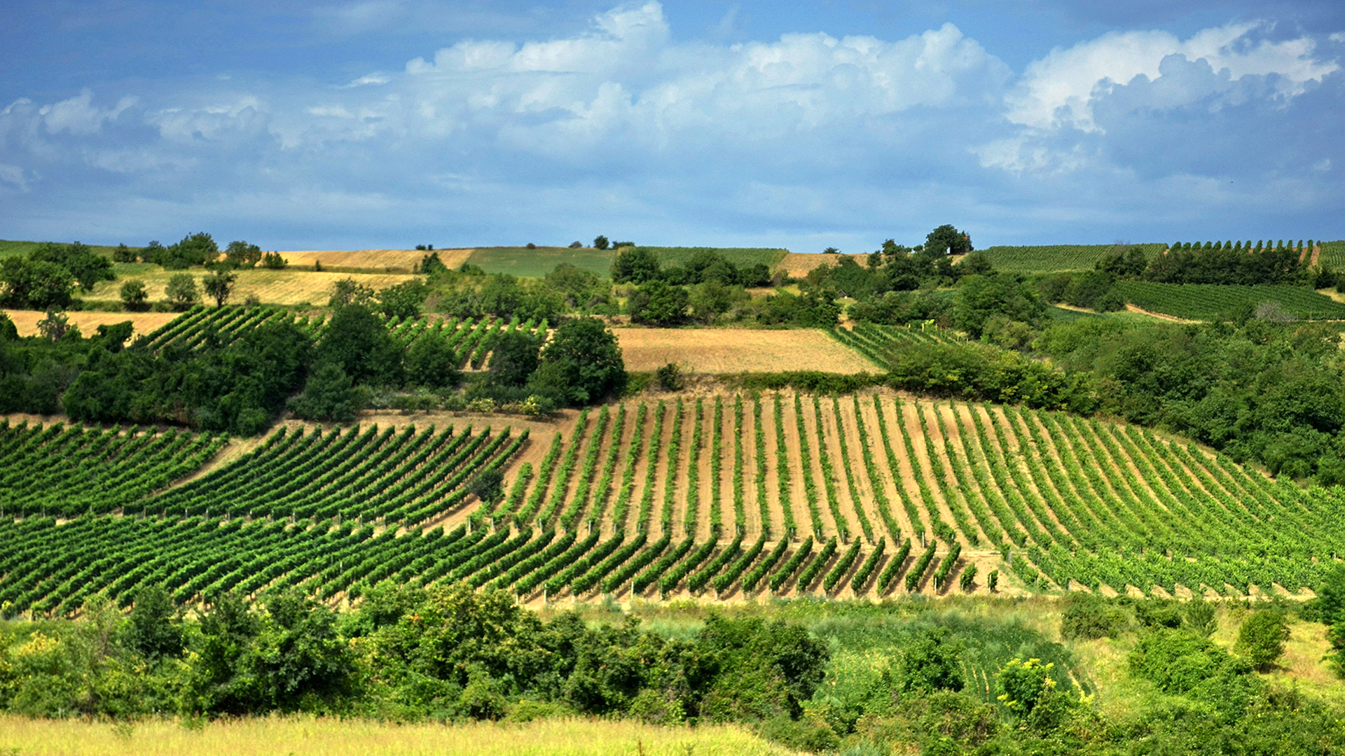 Sremski Karlovci, Fruška Gora, Vojvodina, Serbia